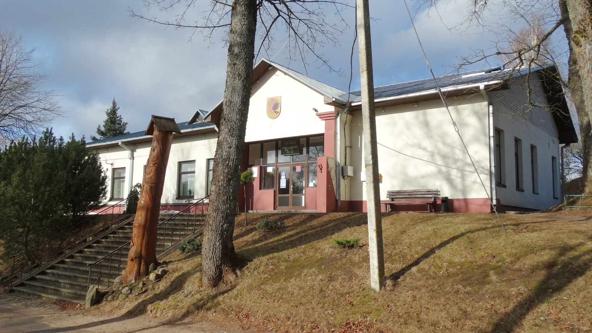 Eldership, Kuktiškės, Utena district, Lithuania